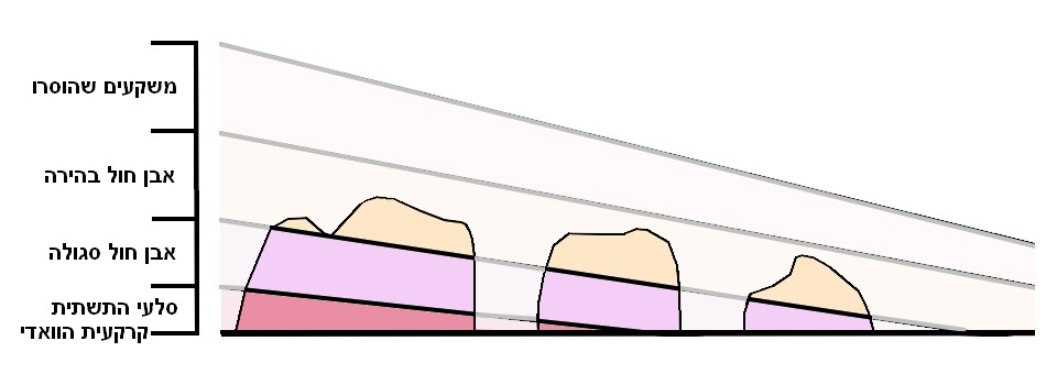 Wadi Rum cross section